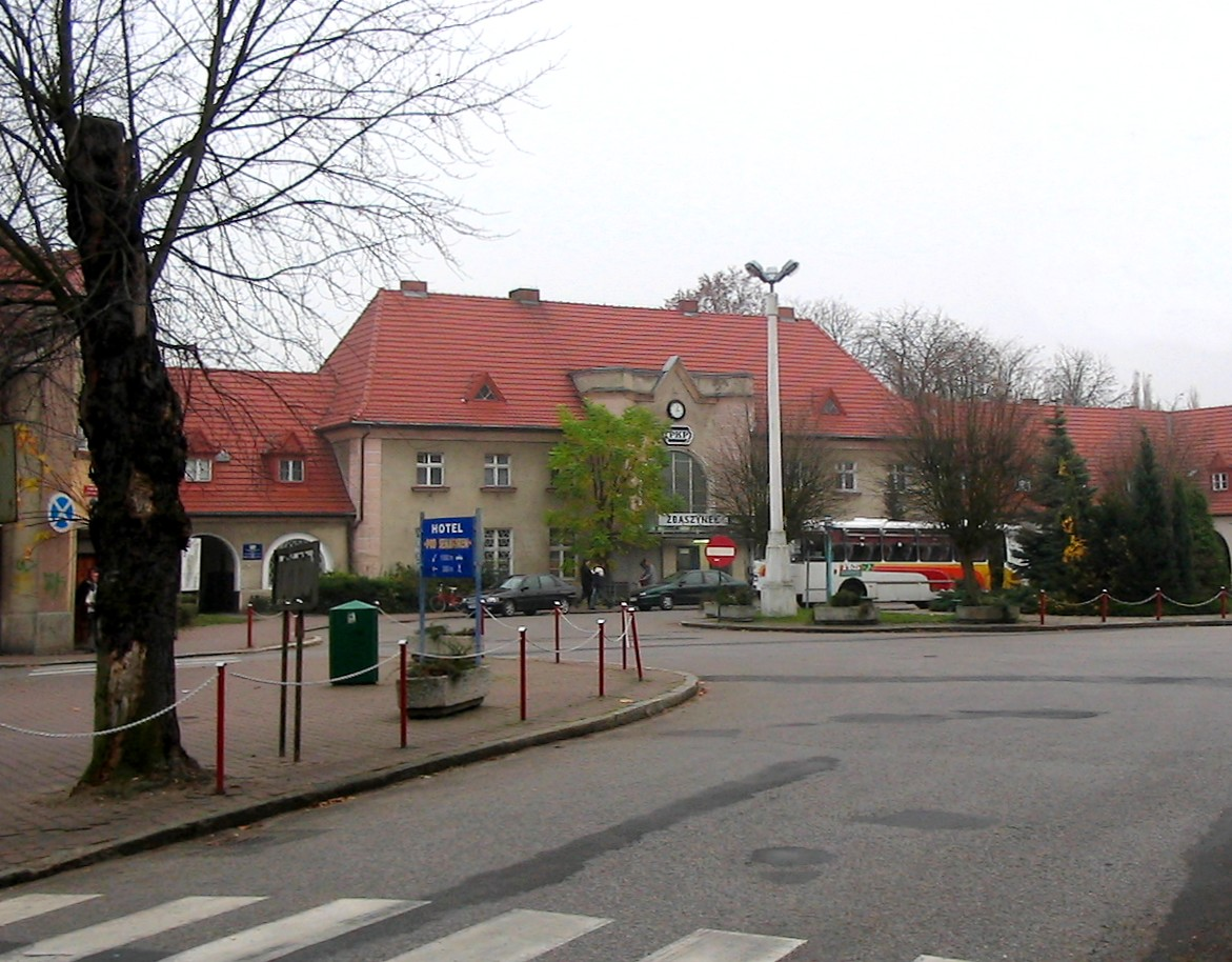 Train station building in Zbąszynek (Poland)